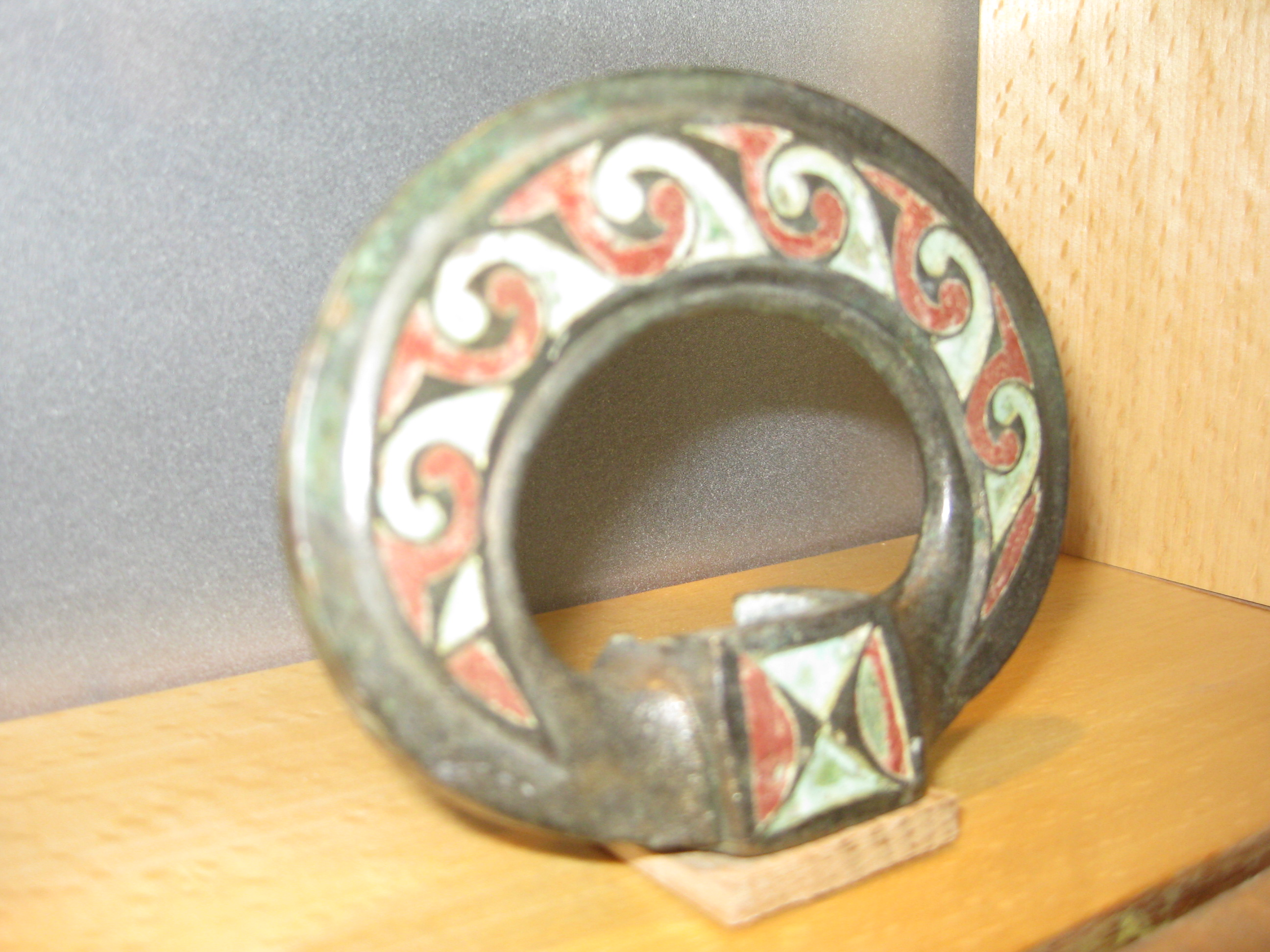 Terret ring of the !st Century AD made in Roman Britain and found at Eauze in the Department of Gers, France. Now in the Museum at Eauze